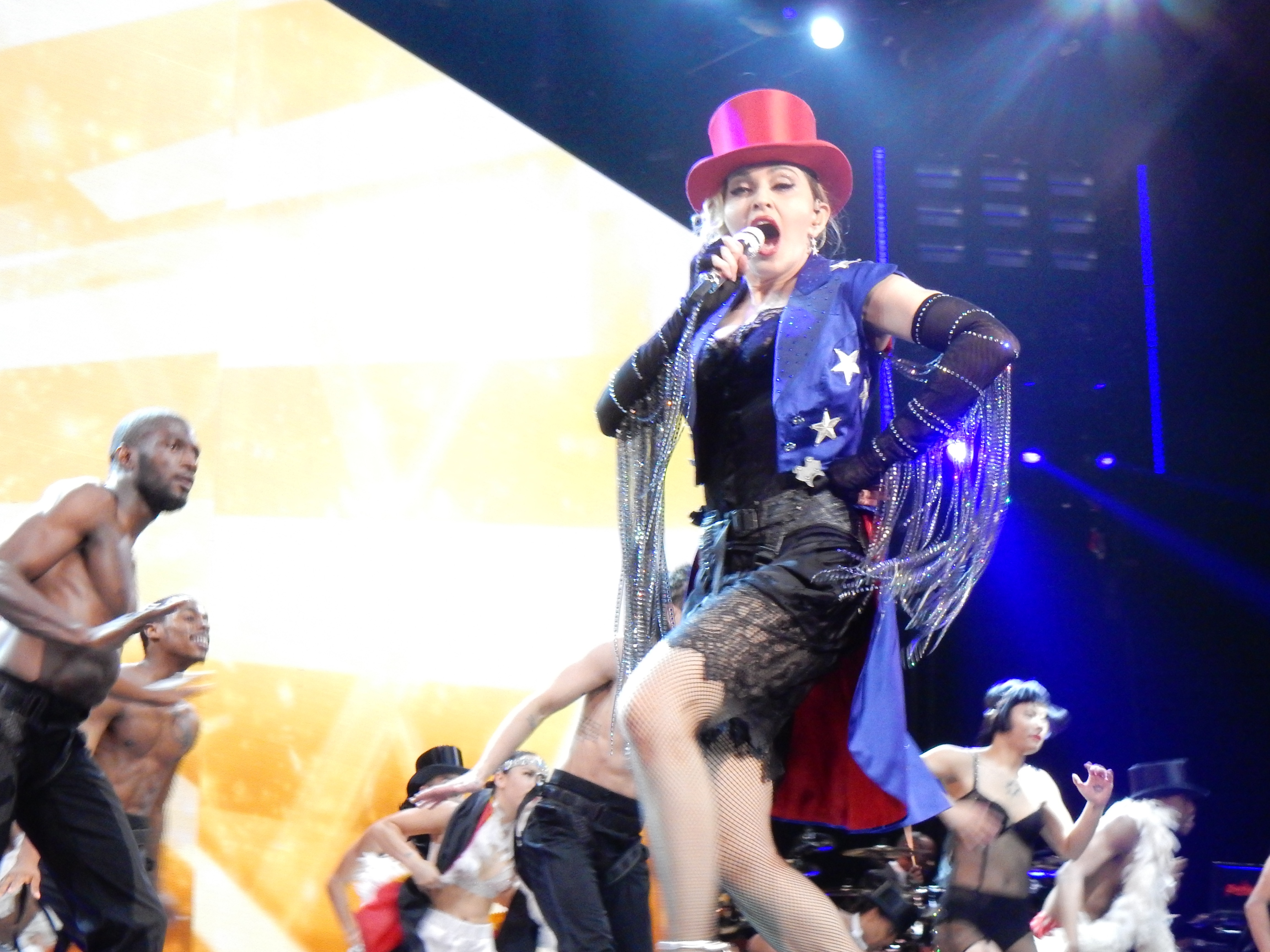 Madonna - Rebel Heart Tour 2015 - Berlin 1